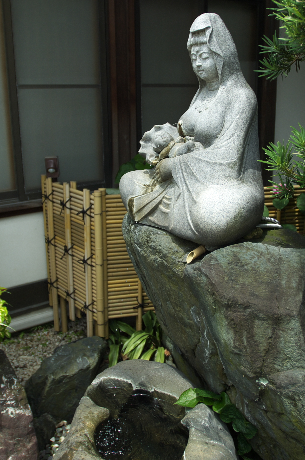 Mama-Kannon's chōzuya